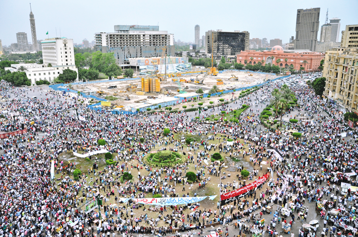 Hundreds of thousands of people protesting in Tahrir Square on 27 May 2011